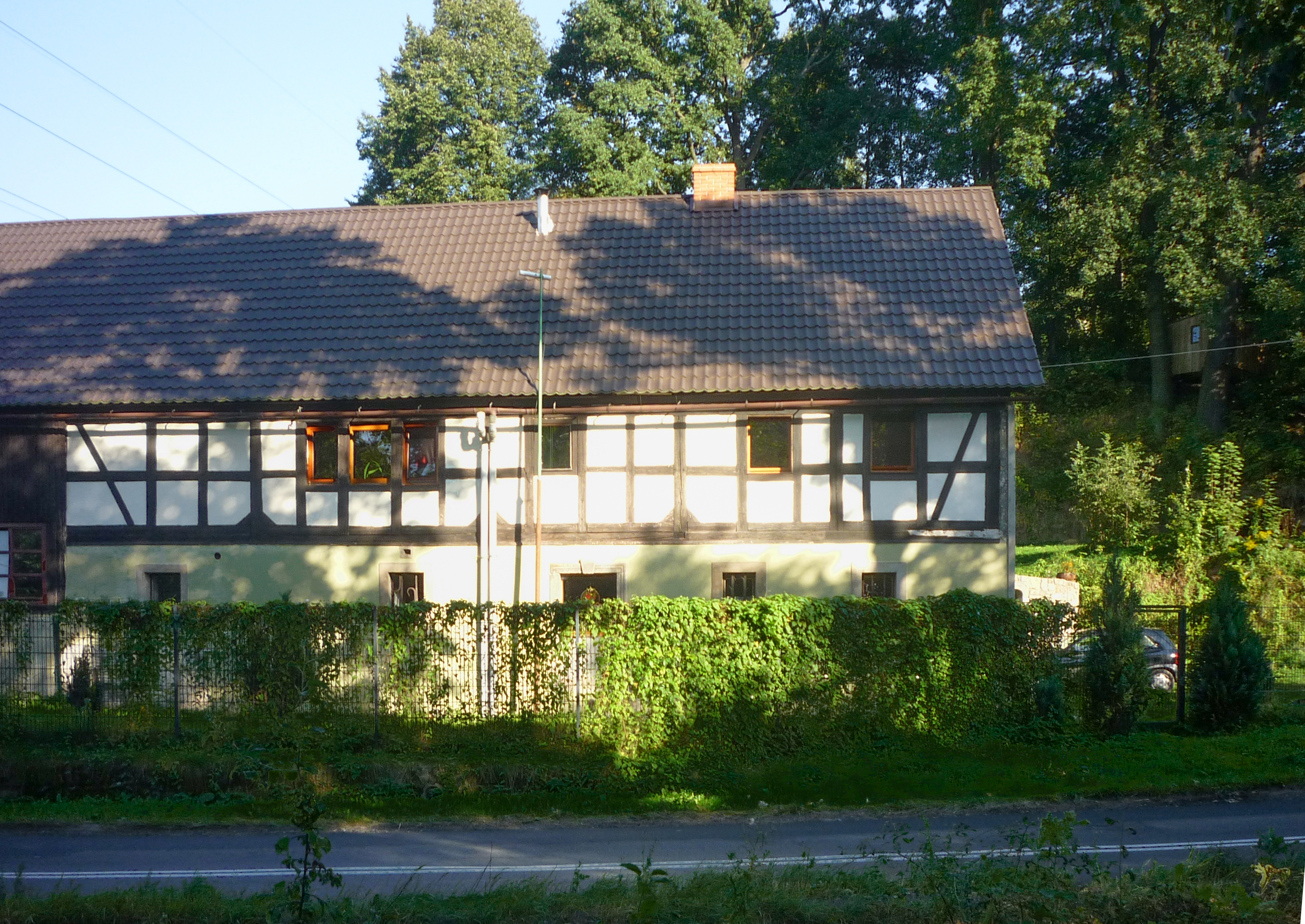 Timbered hut in Mojesz